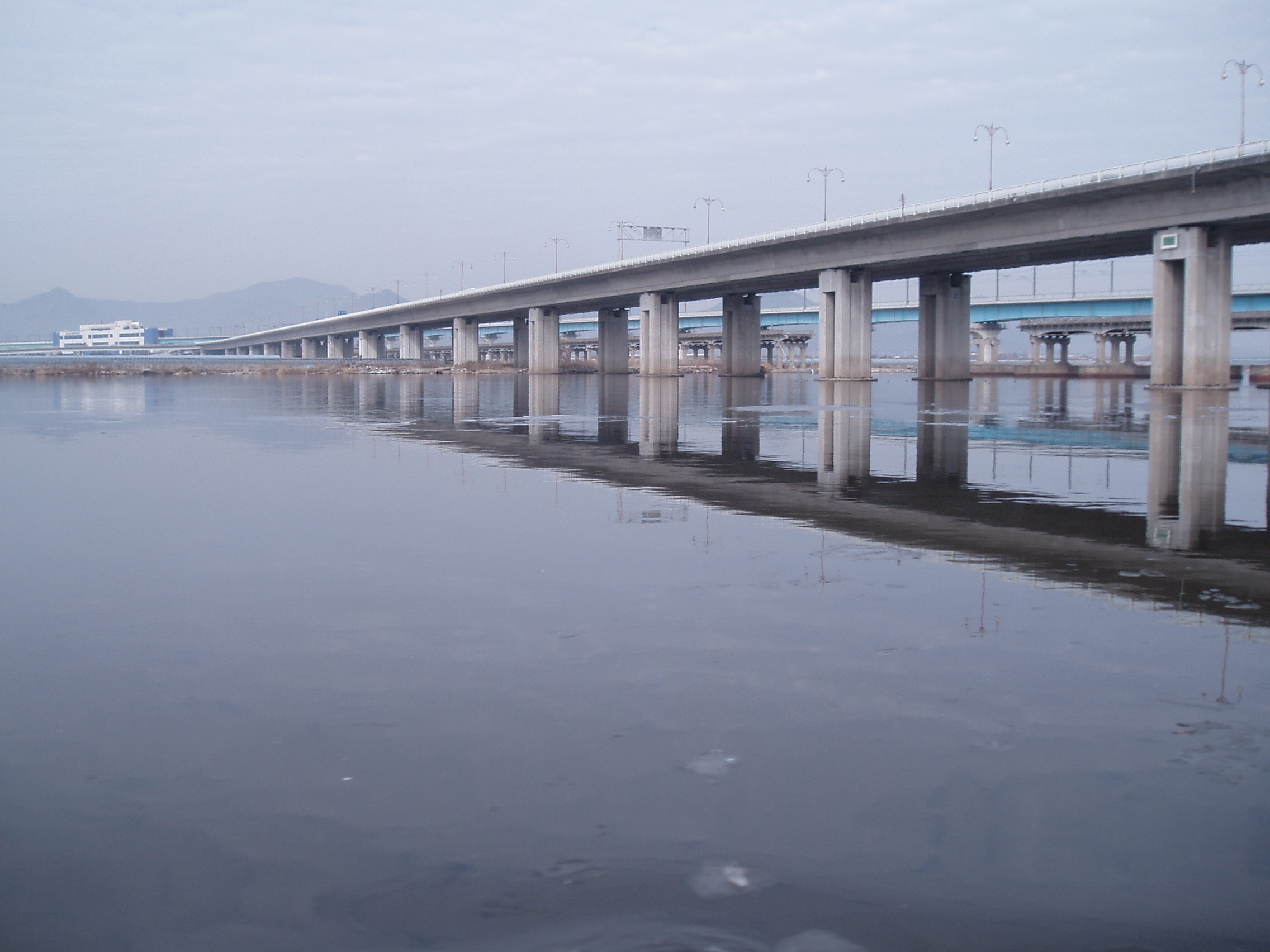 View under Gupo Bridge in Busan Nakdong River